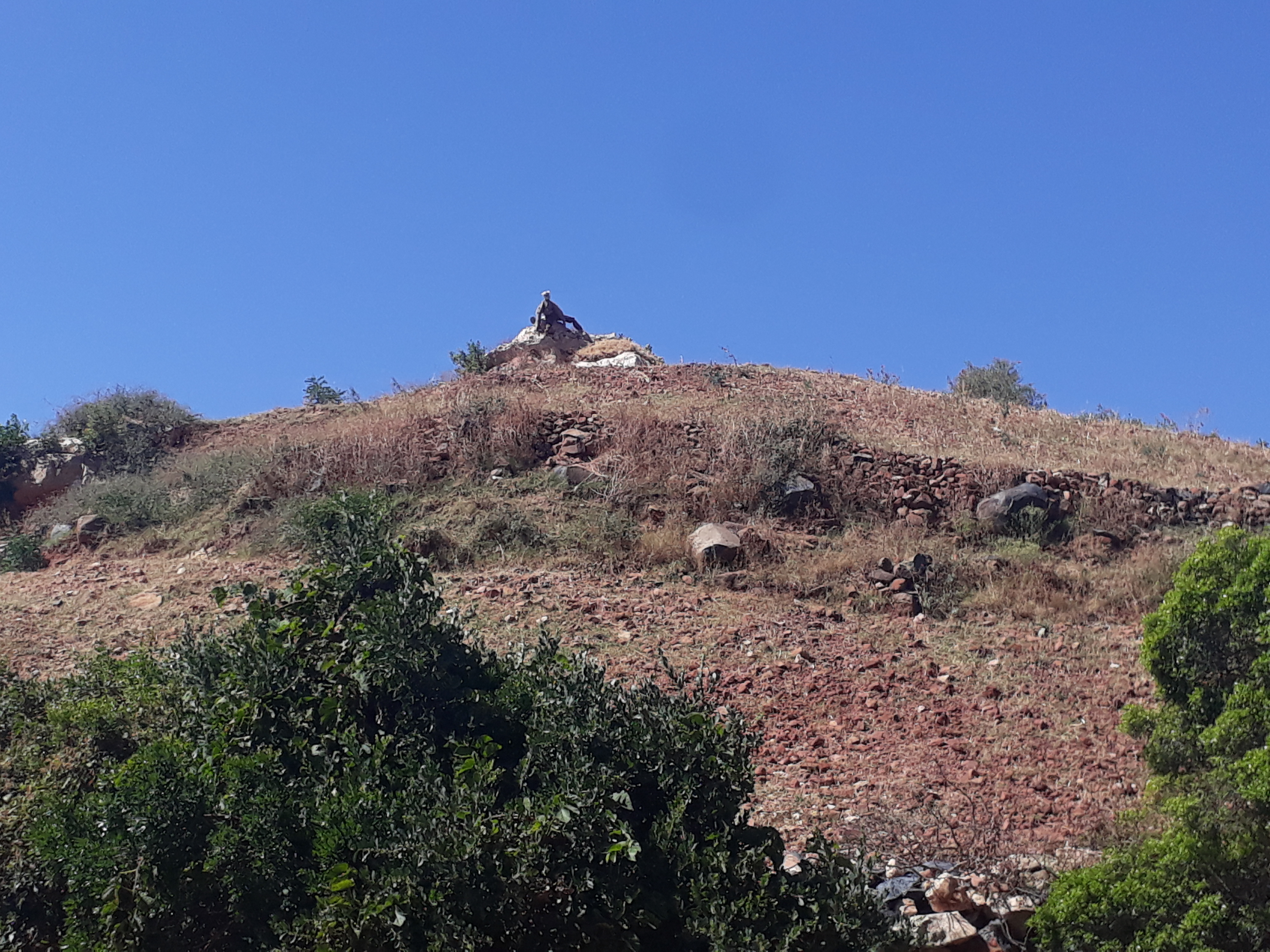 fearing off monkeys in Debre Sema'it